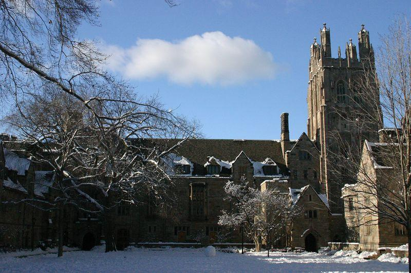 View of Branford College in the winter. It was deemed the most beautiful college residential college by Robert Frost.